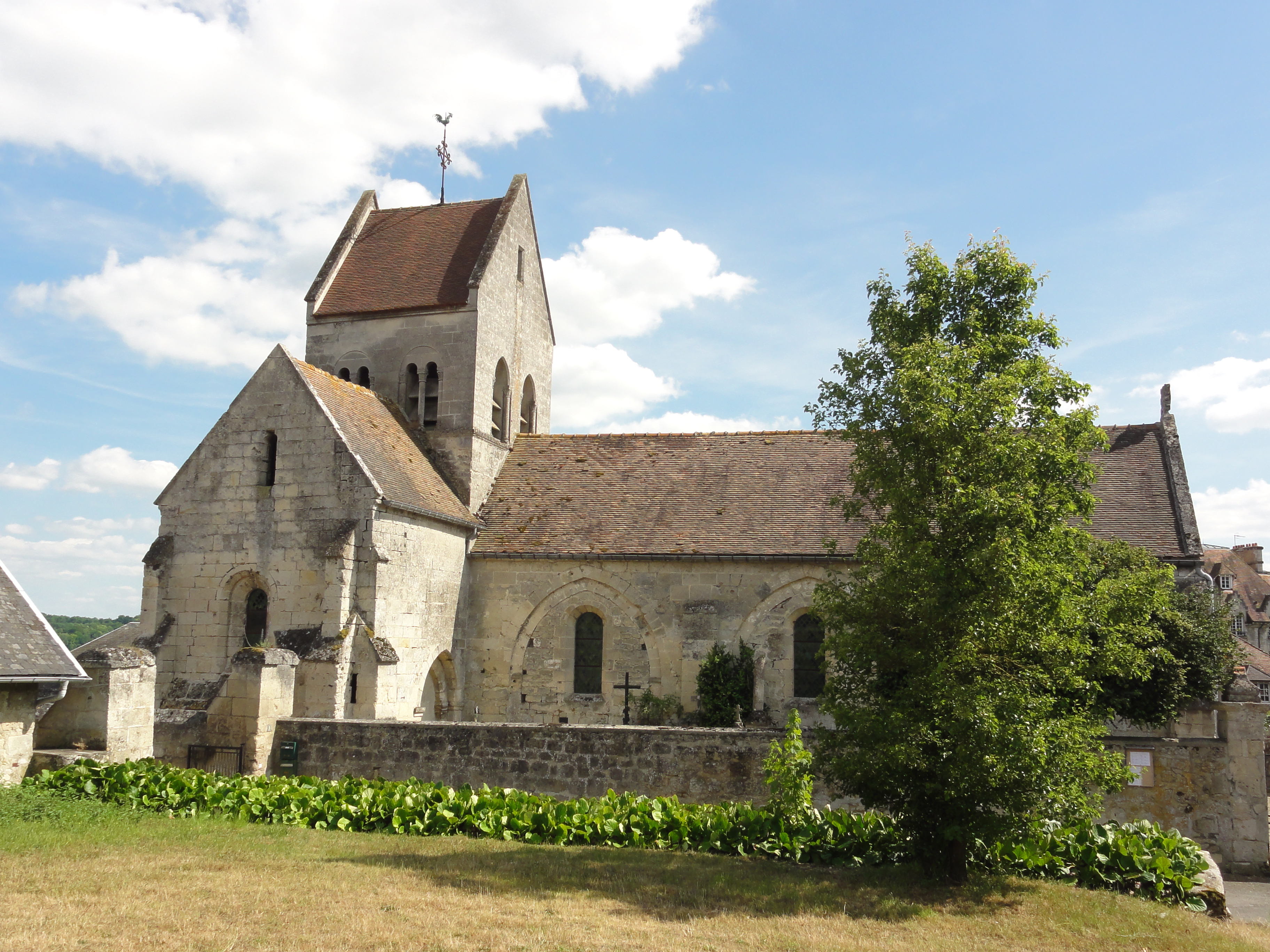 Vregny (Aisne) église